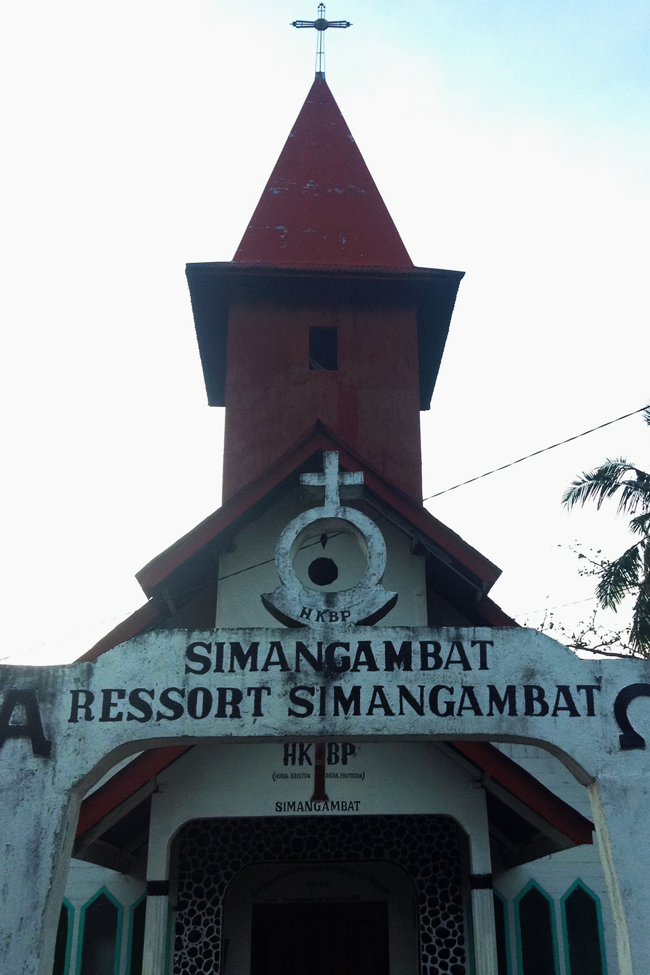 HKBP Simangambat, Church in Simangambat, Saipar Dolok Hole, Tapanuli Selatan.